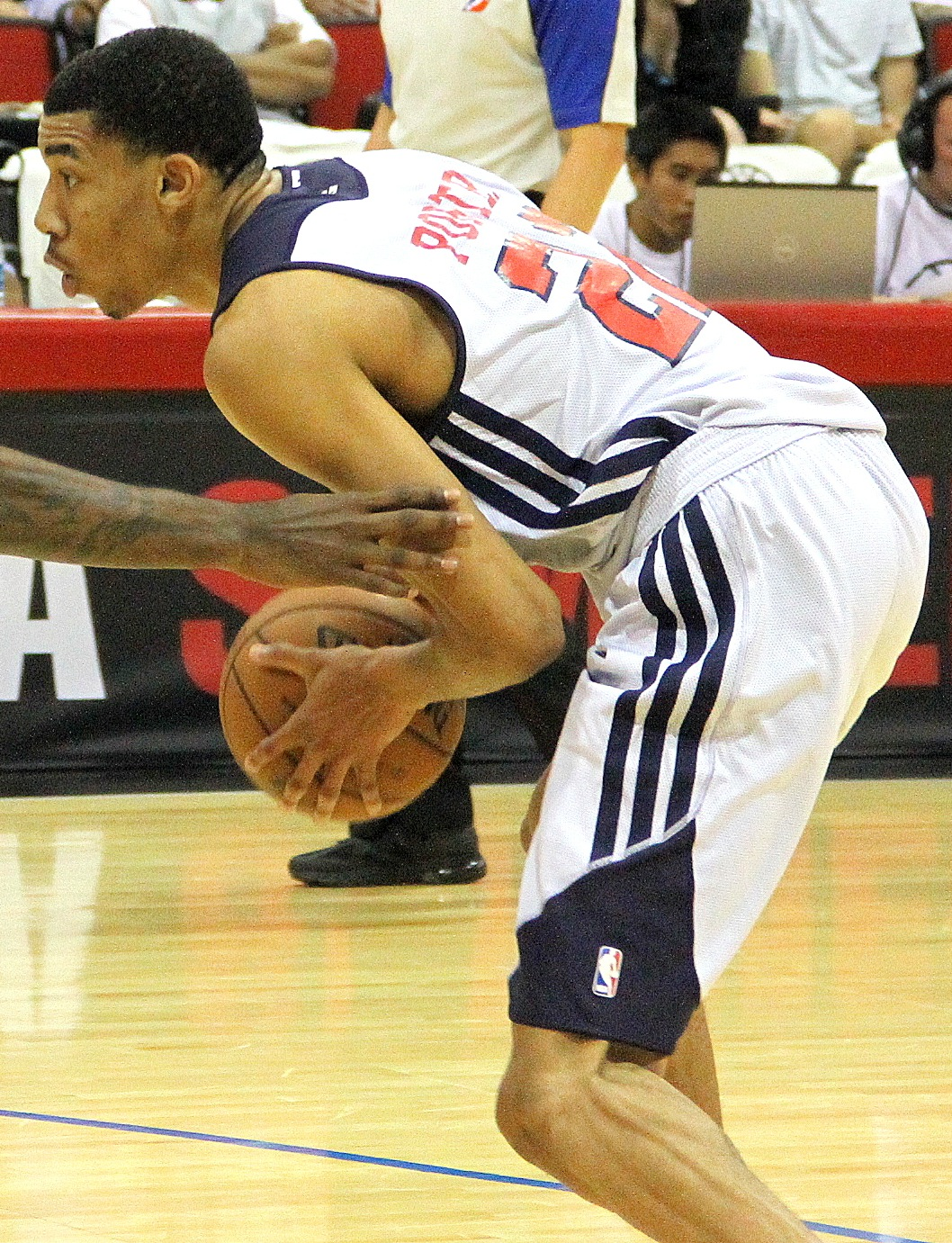 Otto Porter of the Wizards, 2013 Las Vegas Summer League